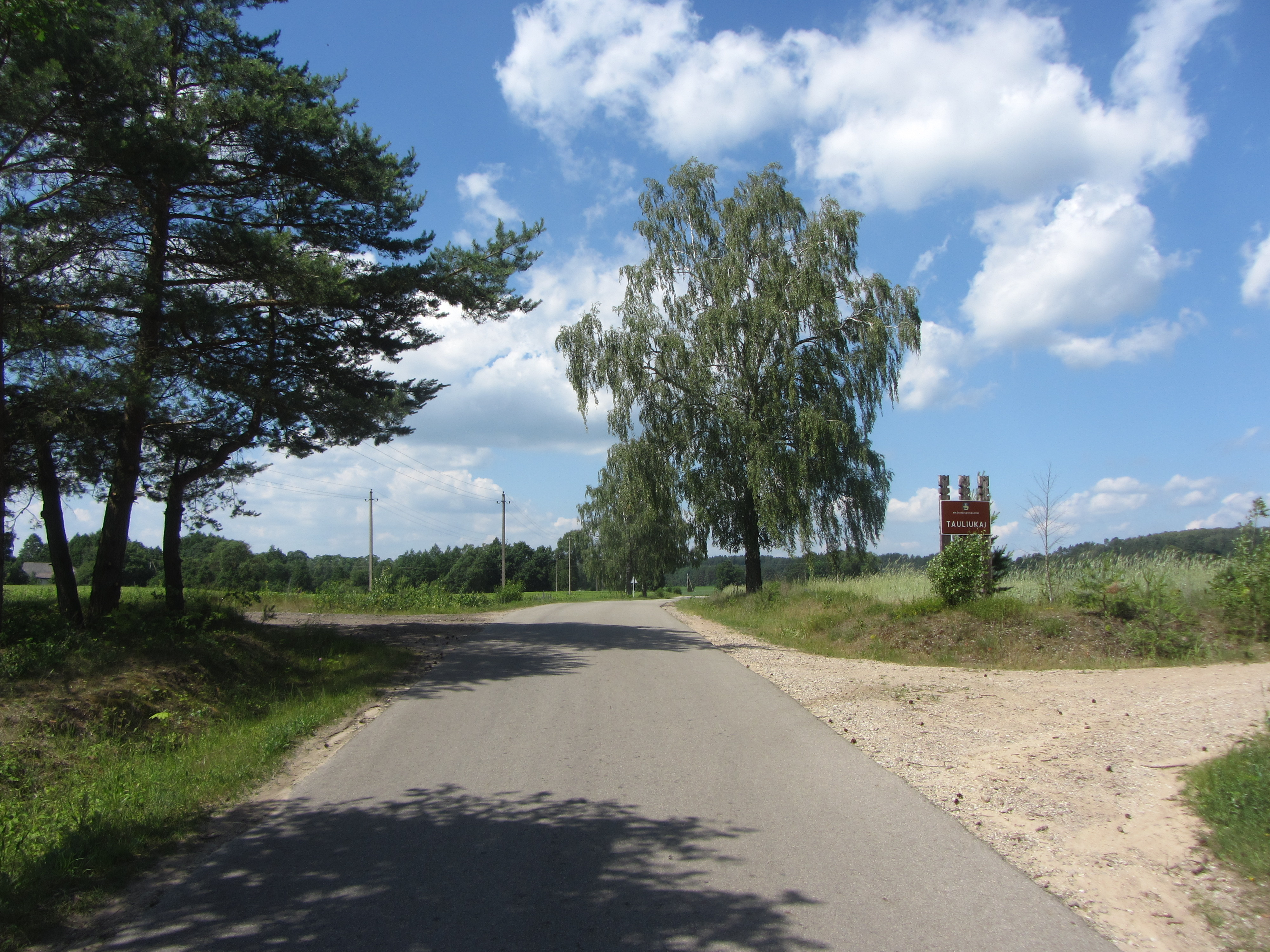 Birštono sen., Lithuania